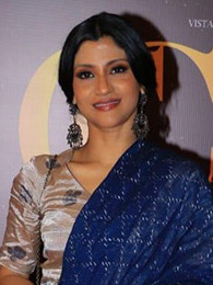 Konkona Sen Sharma at the Critics Choice Shorts & Series Awards 2019